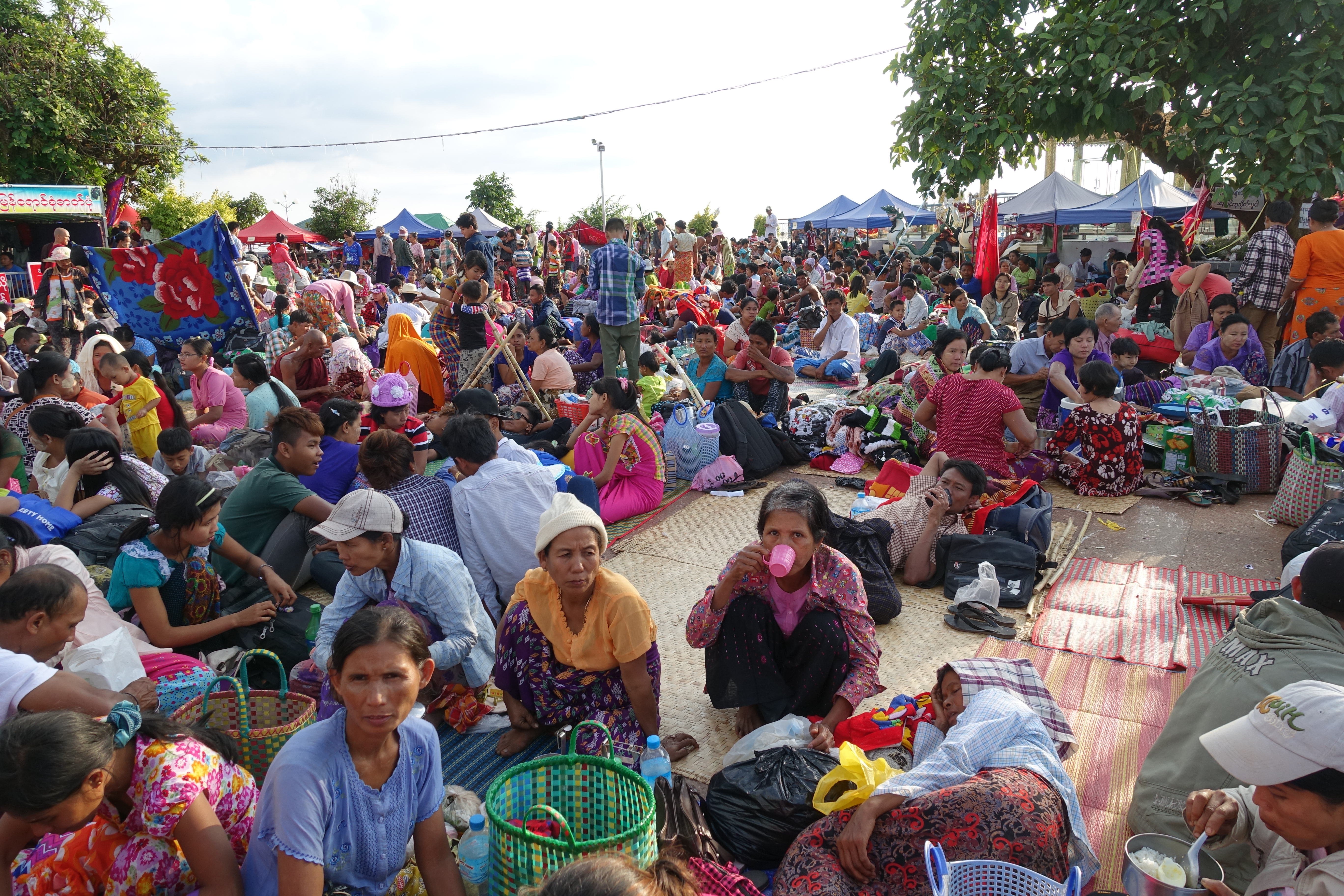 Golden Rock. Kyaiktiyo Pagoda. Pilgrim Season Chrismas 2015. Camping on the Mountain plateau.